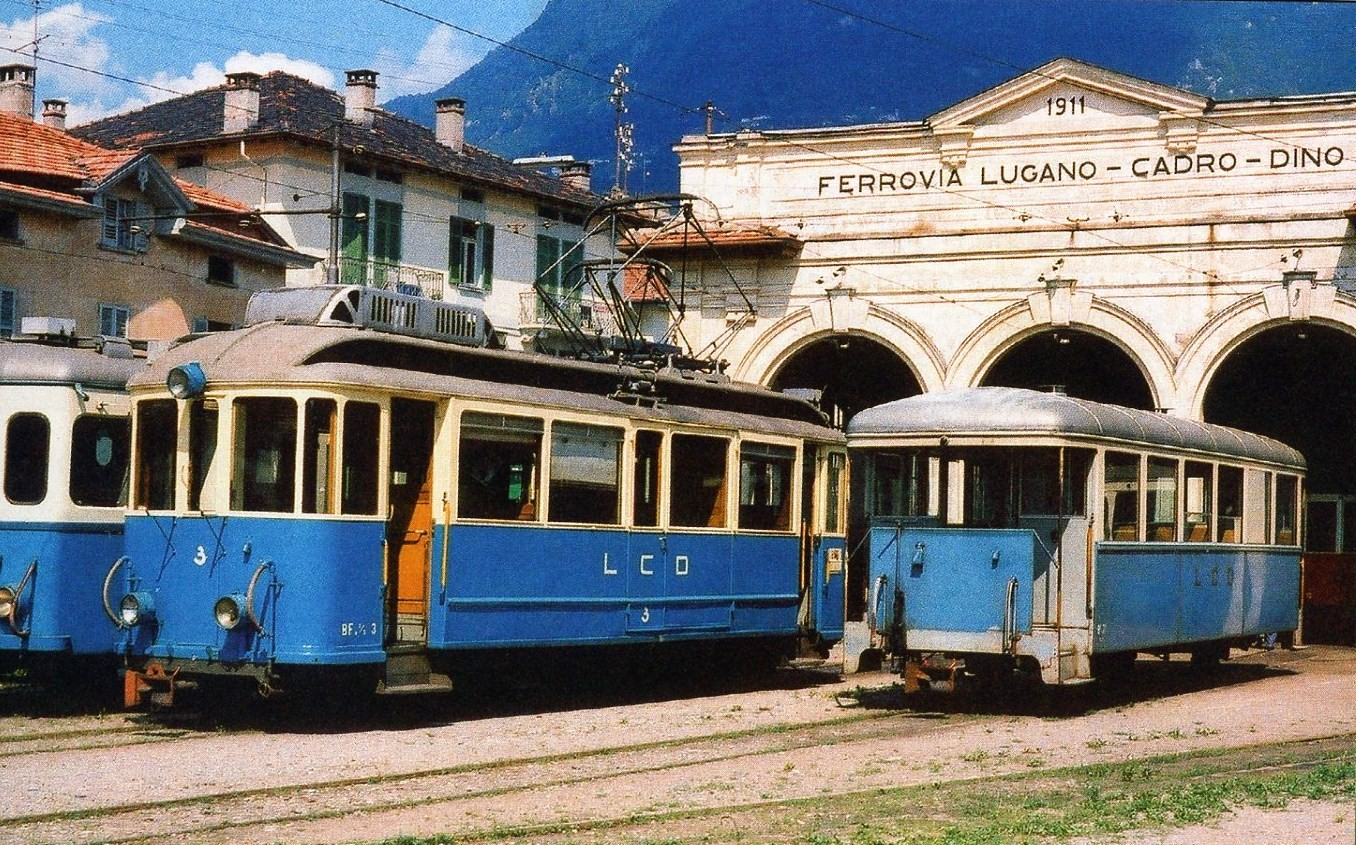 Train of the Lugano-Cadro-Dino light rail line at the depot, in Ticino, Switzerland. Taken 30 May 1970